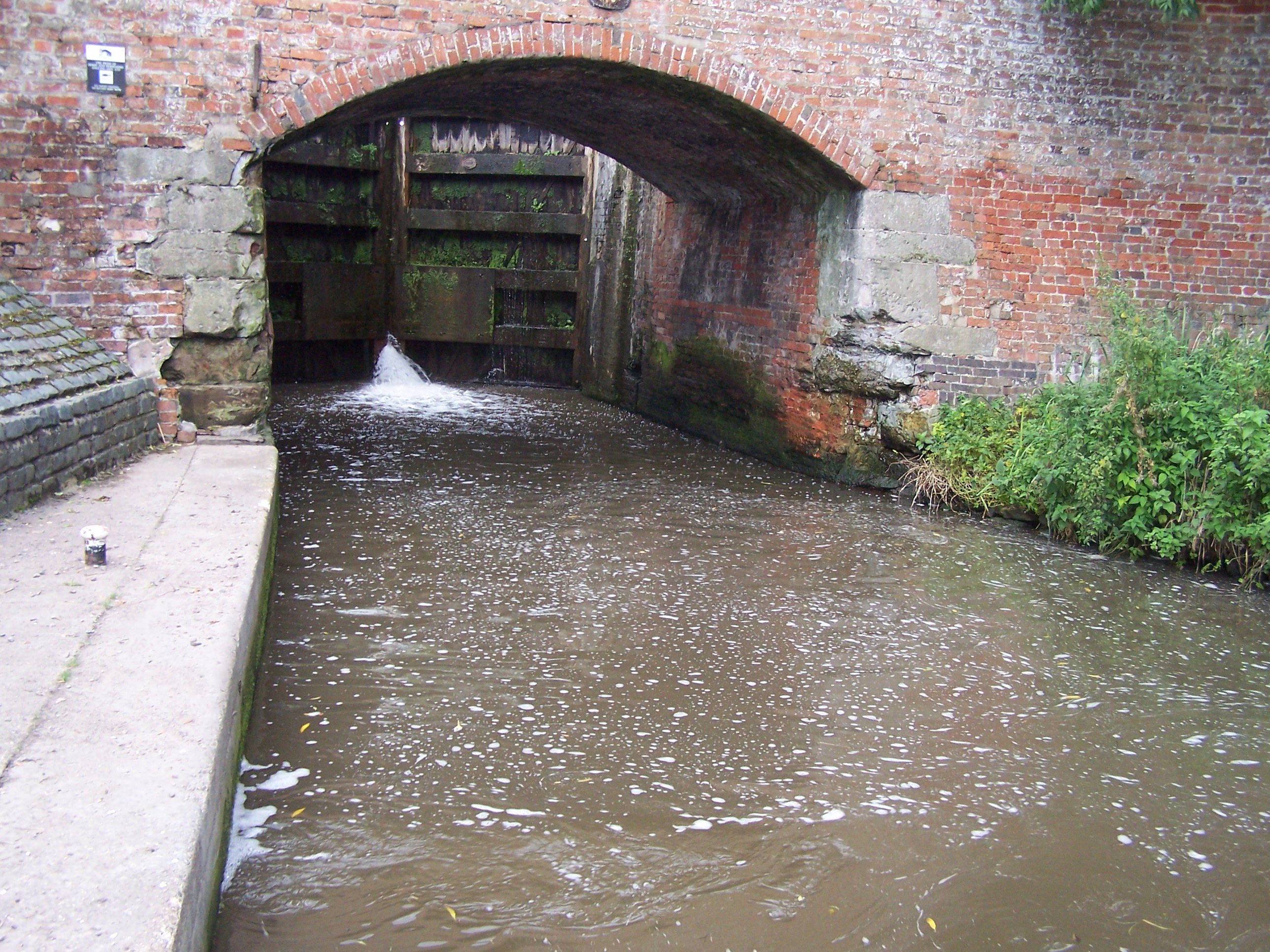 An overflow at the side of the lock discharges at this point with force enough for the point to have become known as Stenson Bubble.